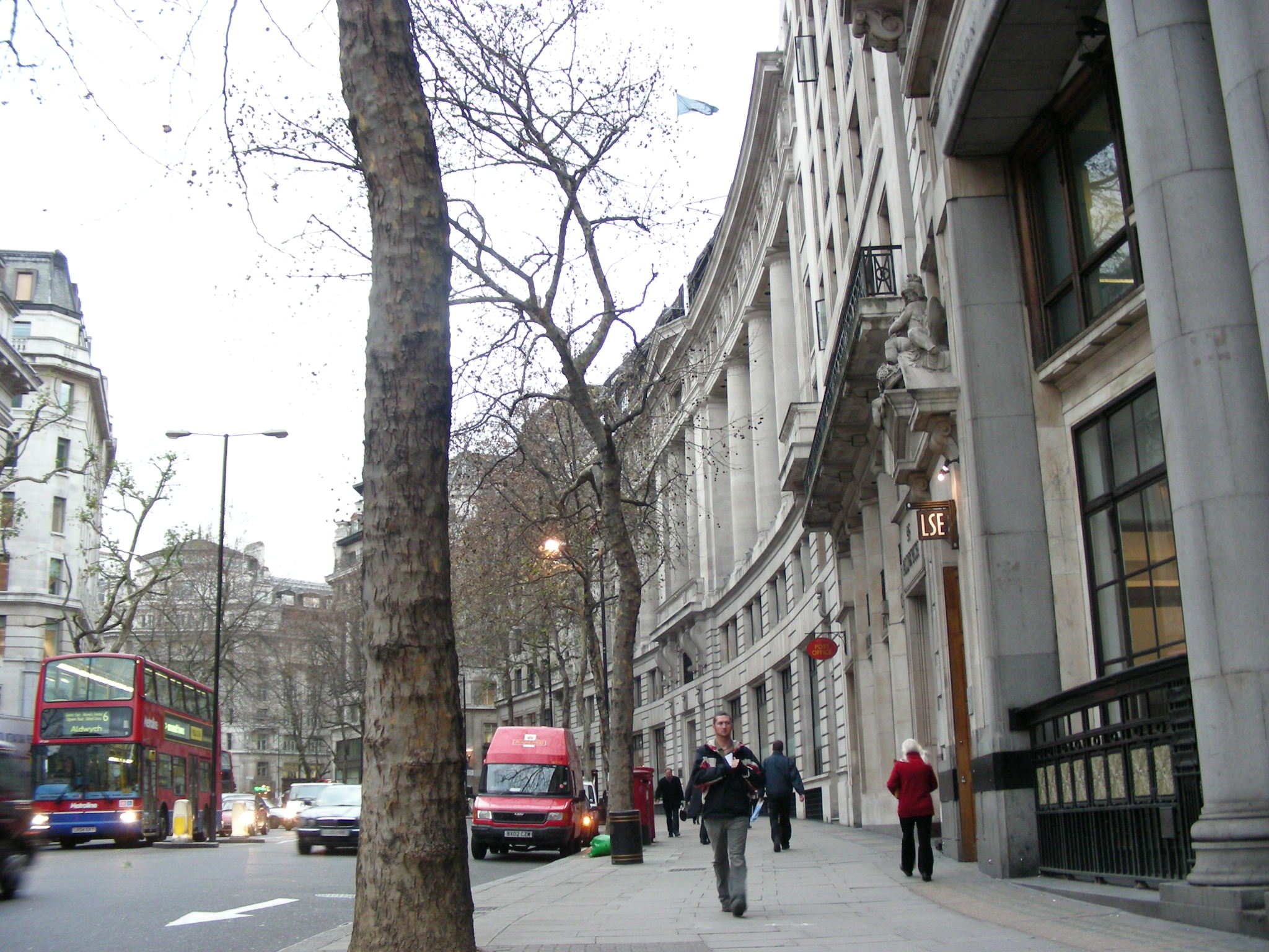 Aldwych and LSE